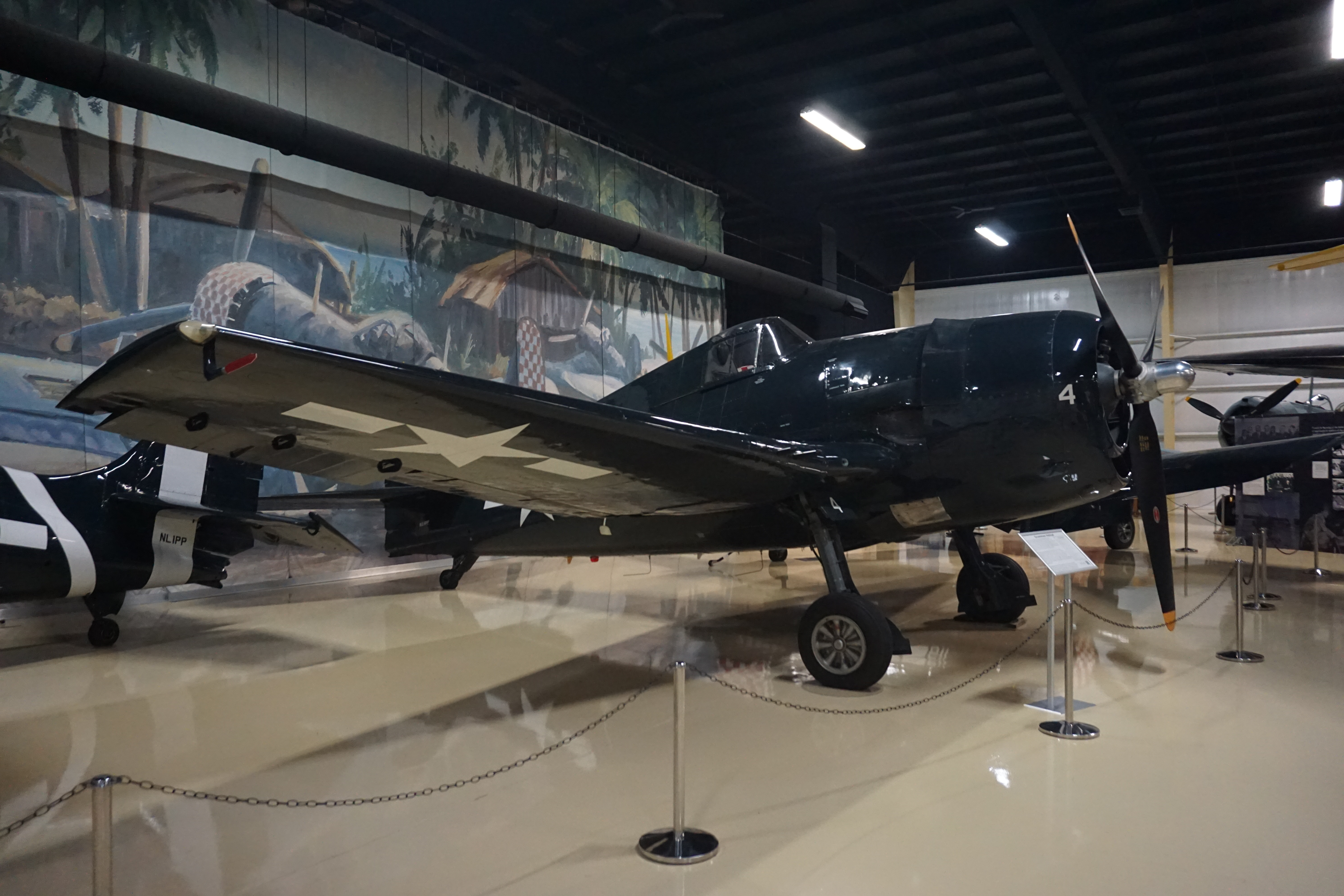 A Grumman F6F-5 Hellcat on display at the Air Zoo at Kalamazoo/Battle Creek International Airport in Portage, Michigan (United States).